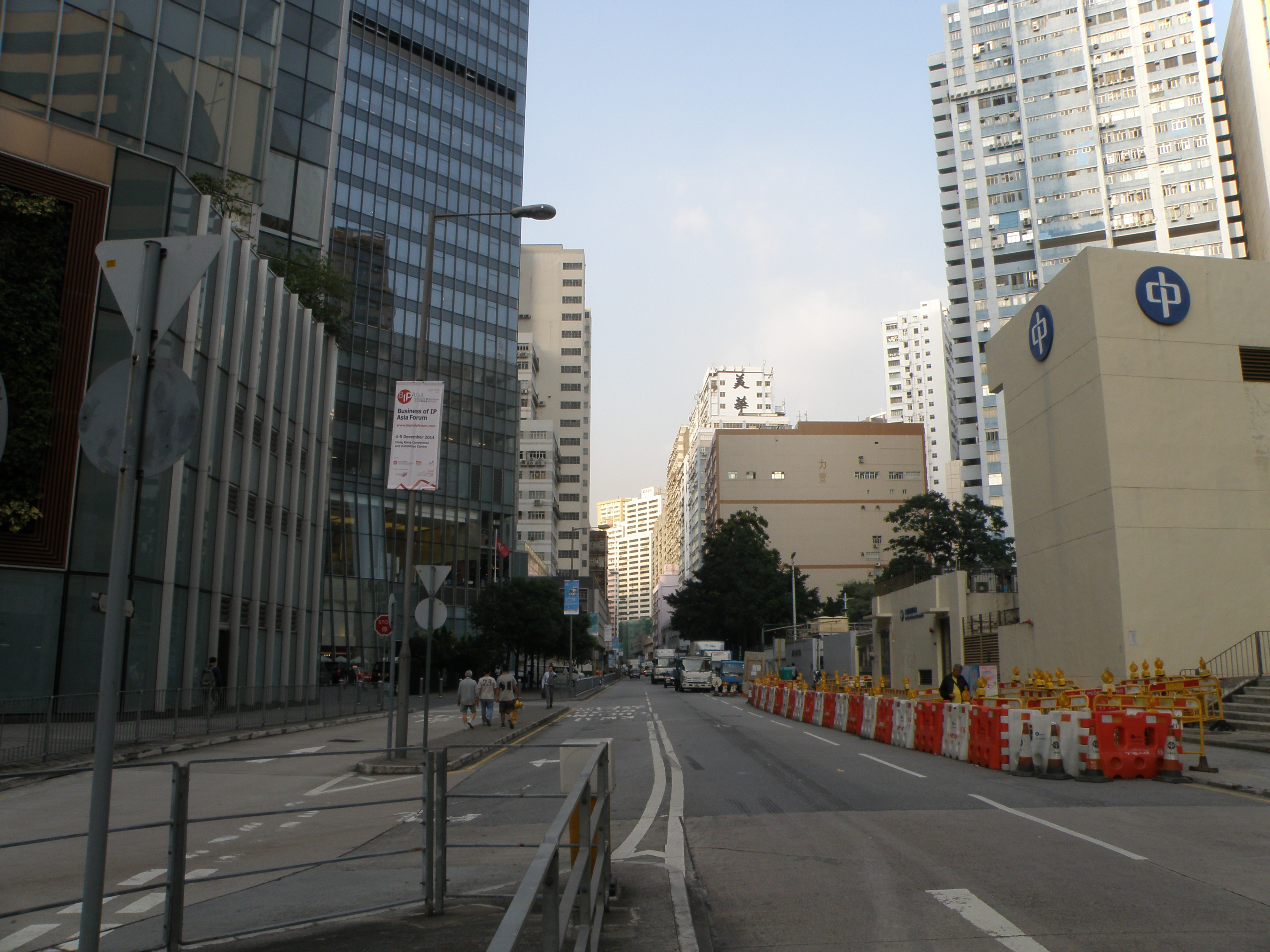 Tai Lin Pai Road in Kwai Chung, Hong Kong.